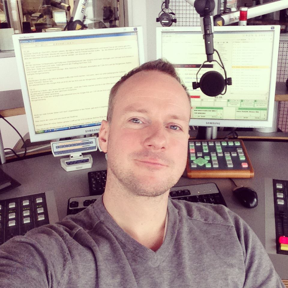 Radiospeaker Hans Blomberg in the Radiostudio 2013